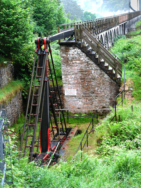 Pump mechanism operated by the Laxey Wheel